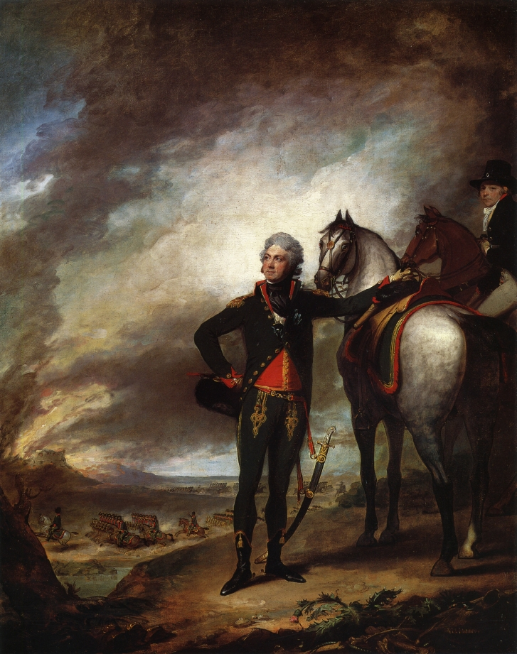 "Louis-Marie, Vicomte de Noailles". Courtesy of the Metropolitan Museum of Art, New York.